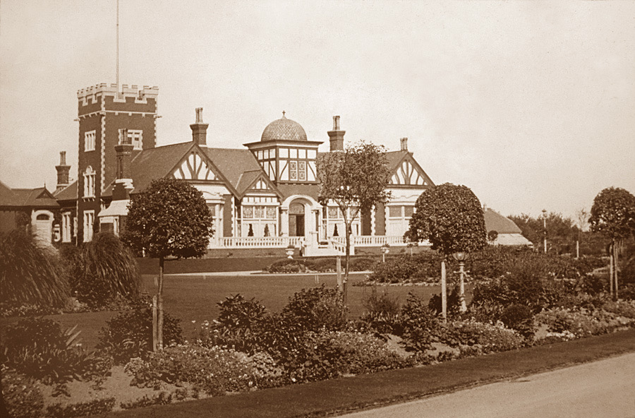 The Illwalla, Thornton, Lancashire. Now demolished.